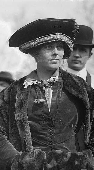 cropped from Suffrage parade - Mrs. Mary Bair, Mr(s). W. Albert Wood, and Mrs. R.S. (i.e., Richard Coke) Burleson LOC 2616374812